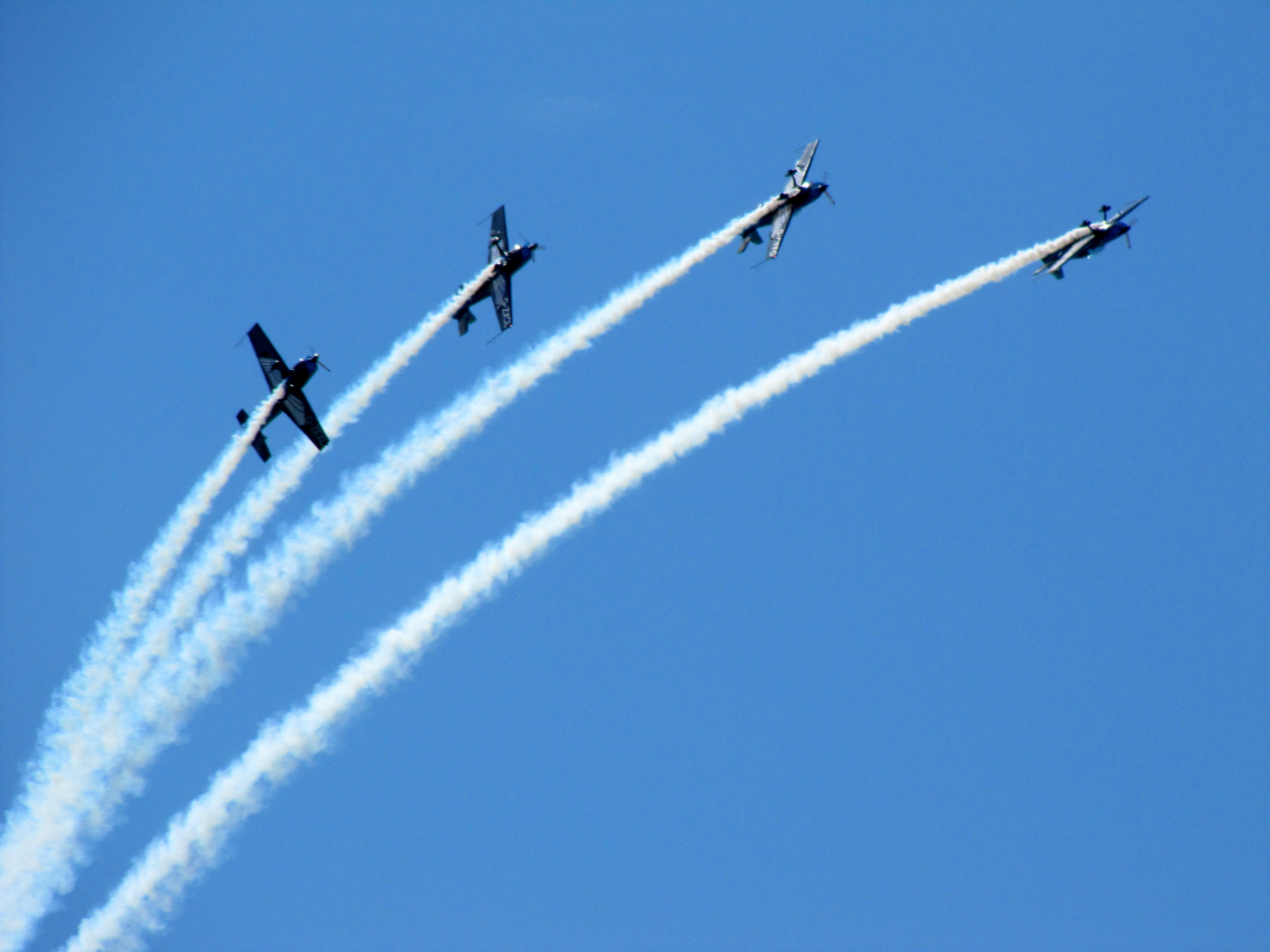 The Blades at Waddington Air Show 2010